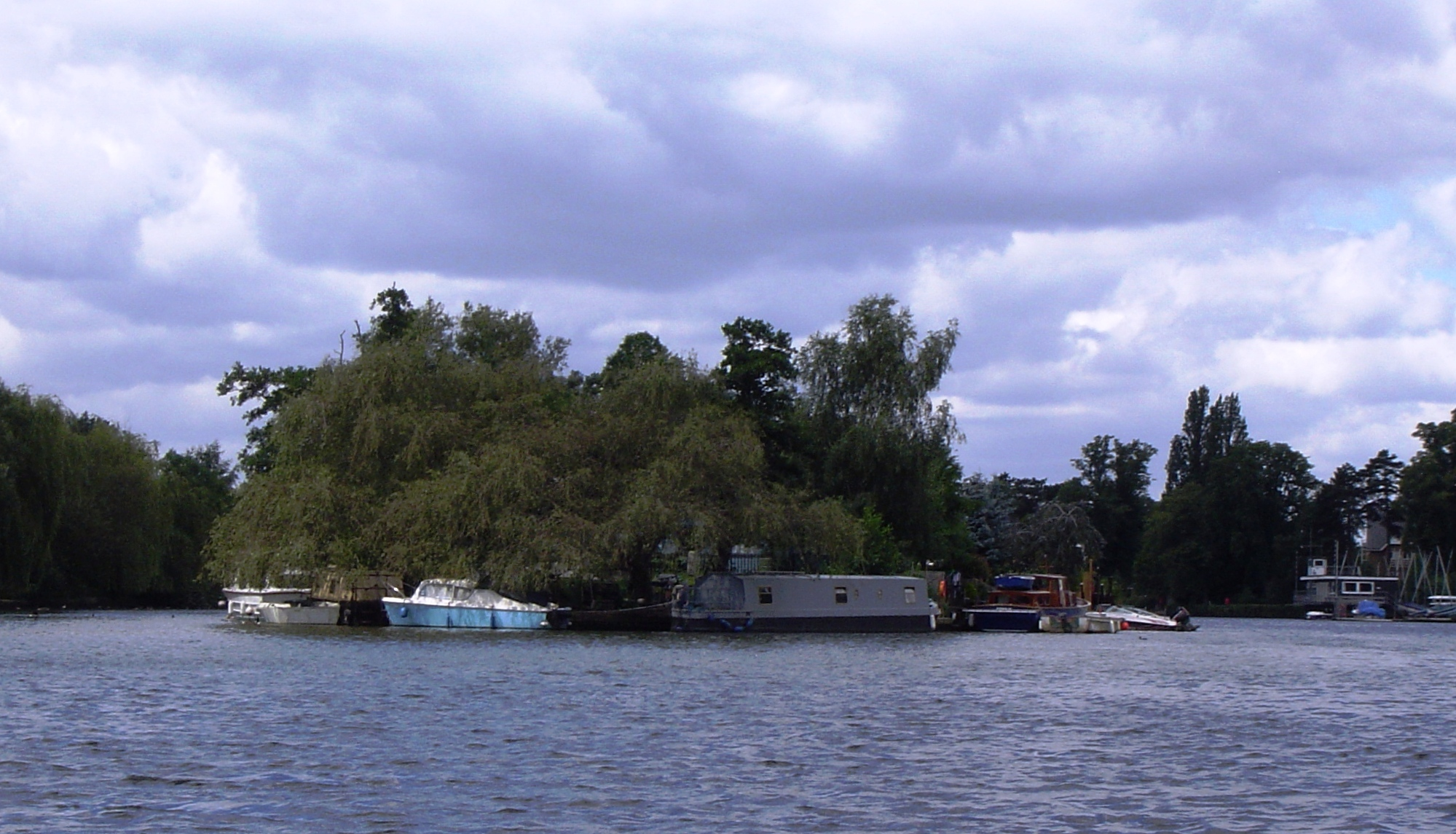 Garricks Ait, River Thames near Molesey